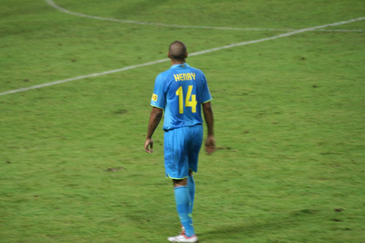 Thierry Henry avec Barcelone